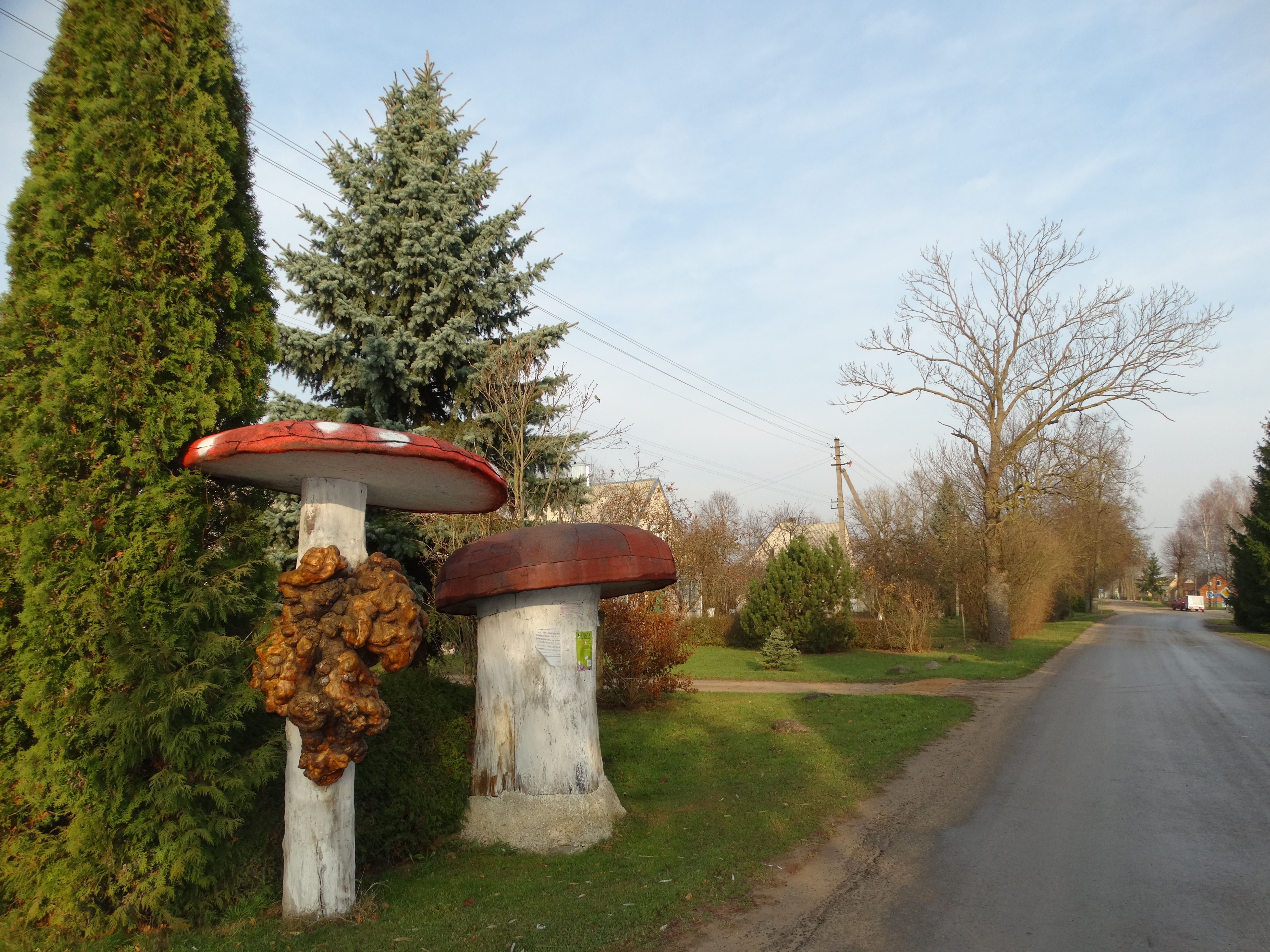 Meilūnai, Biržai district, Lithuania